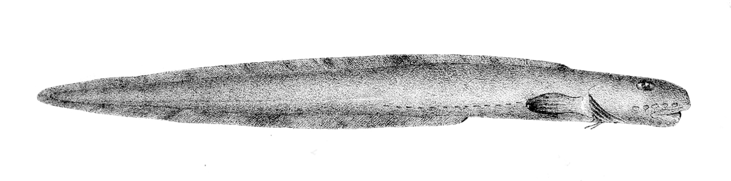 Ophthalmolycus amberensis